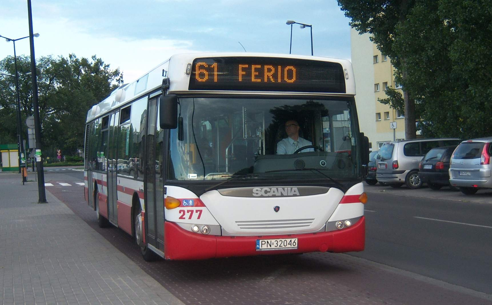 Scania CN270UB 4x2 EB OmniCity bus (#277) in Konin, Poland. Built 2008, MZK Konin operator.